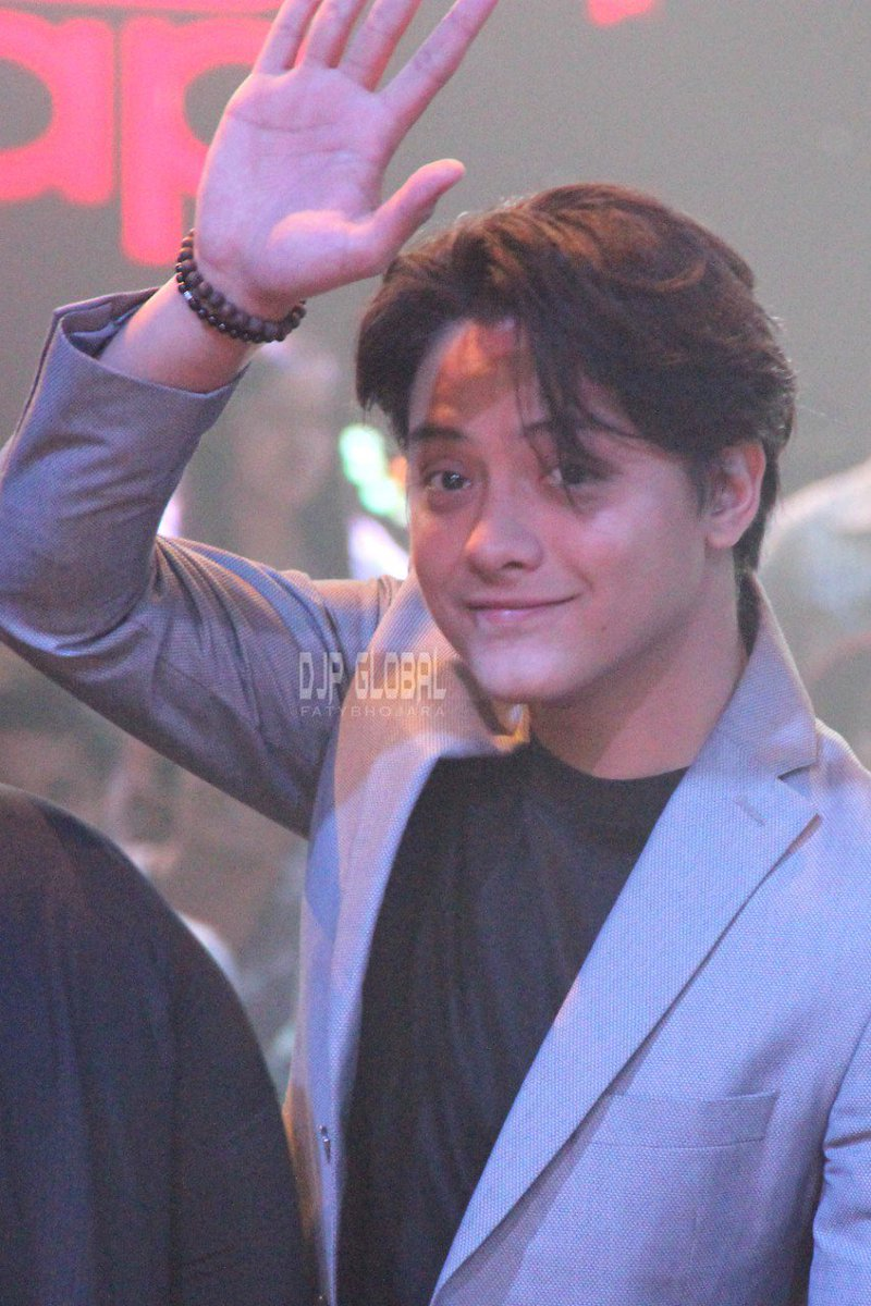 Daniel Padilla on ASAP 2016